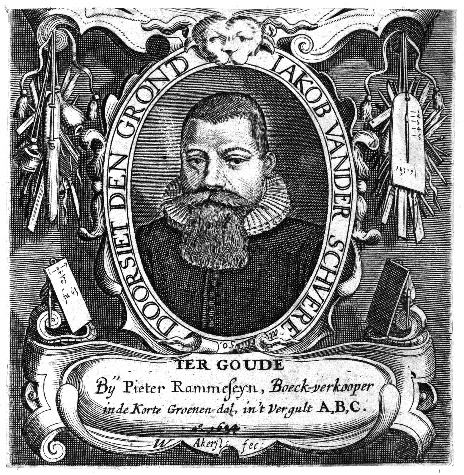 Jacob van der Schuere engraving 8.1 x 7.9 cm circa 1625 - 1634